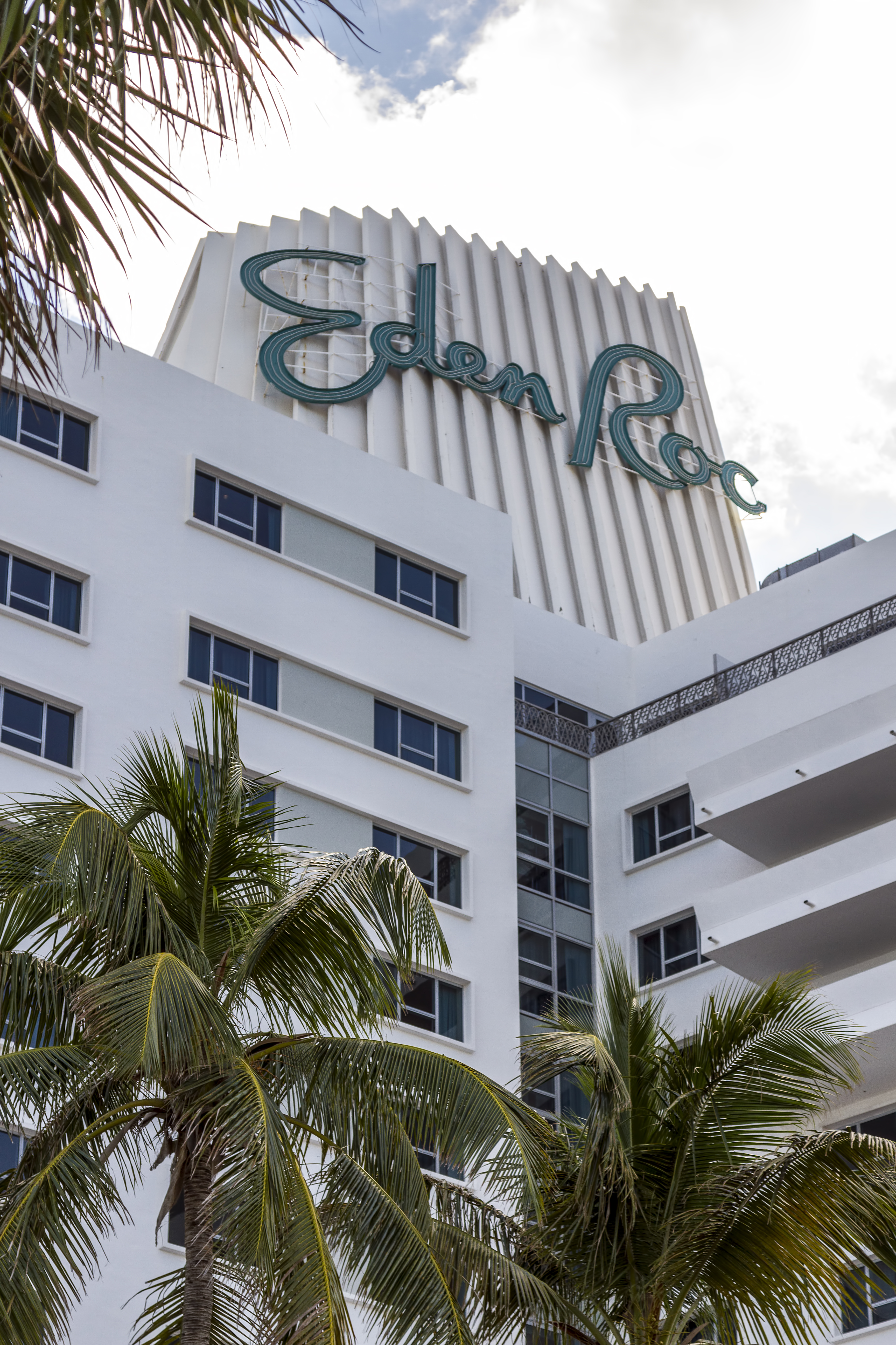 The North Side of the Eden Roc Hotel, Miami Beach, Florida, USA